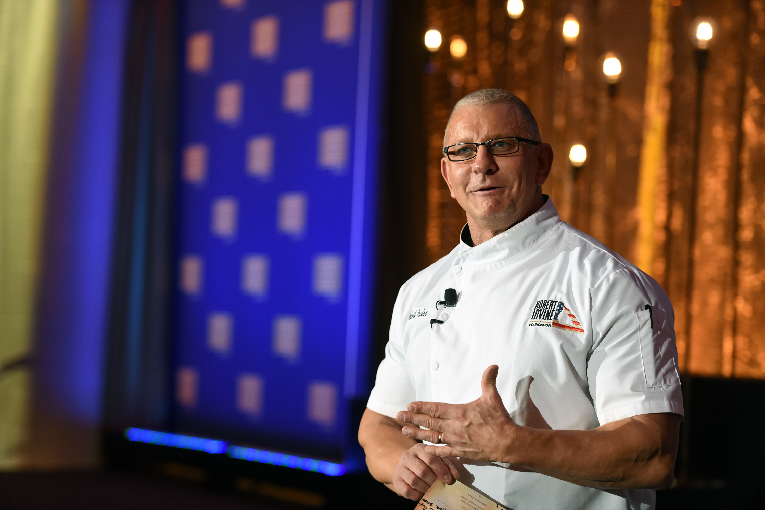 Chef Robert Irvine addresses the 2016 USO Gala, Washington, D.C., Oct. 20, 2016. (U.S. Army National Guard photo by Sgt. 1st Class Jim Greenhill)